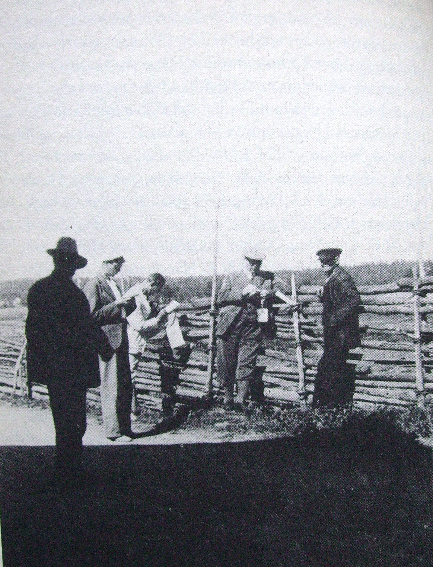 Picture of field work of ethnologists in Småland in Sweden 1934